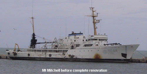 from